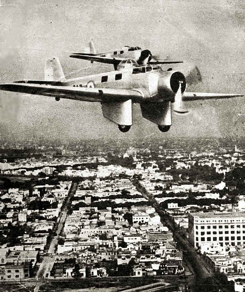 FMA Aé.M.B.2 - two inflight